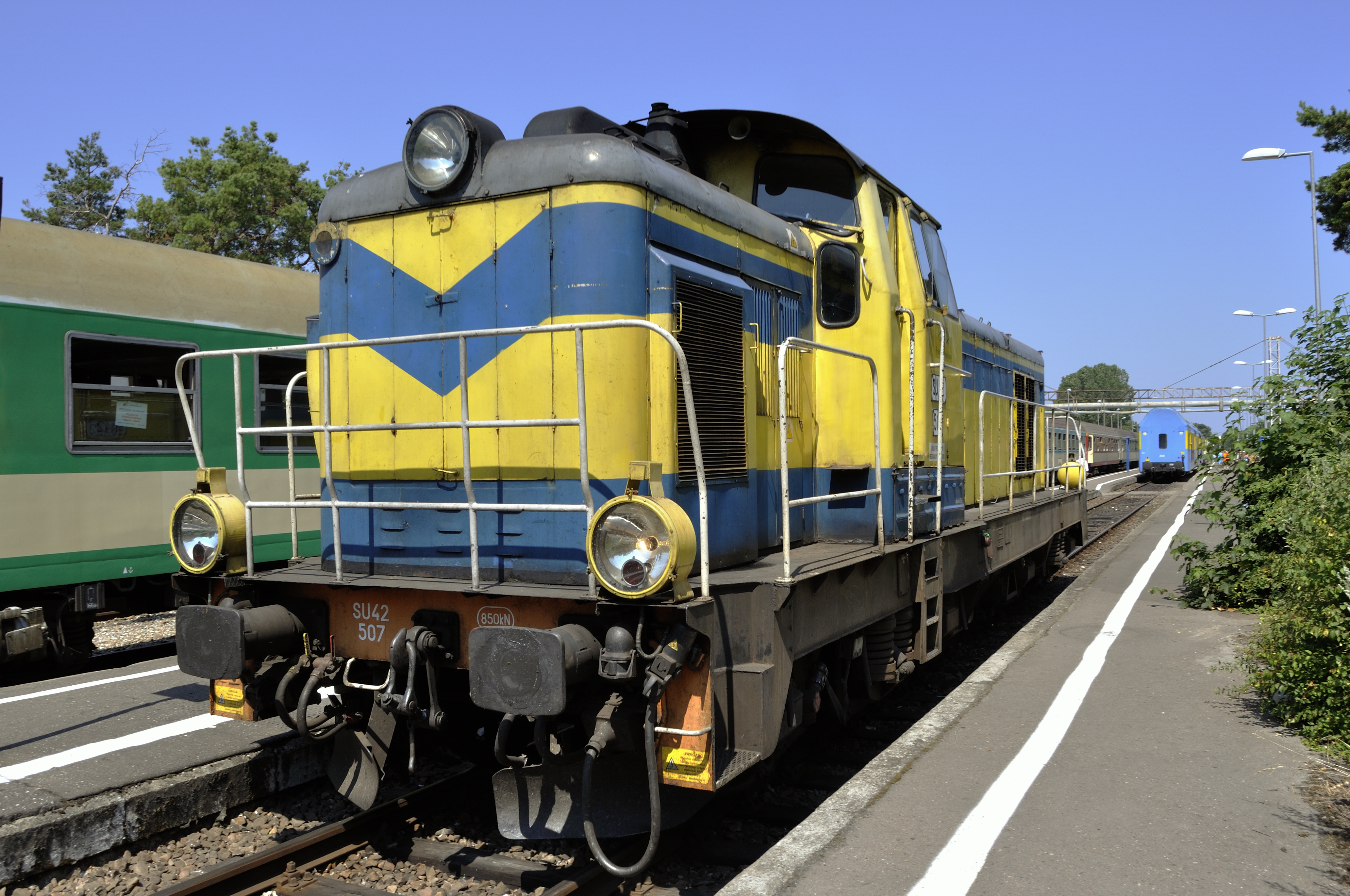 Picture taken in Hel after Wikimania 2010 conference.